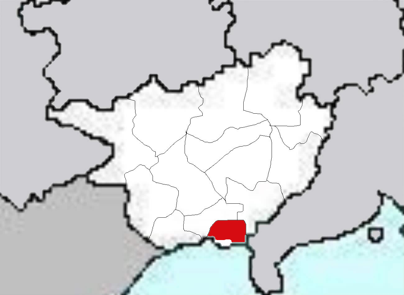 Location of Hepu in Guangxi